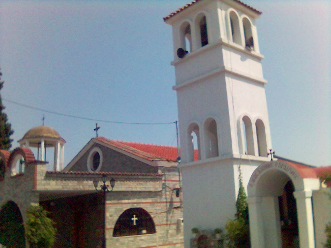 Church in the village of Stavros, Greece.